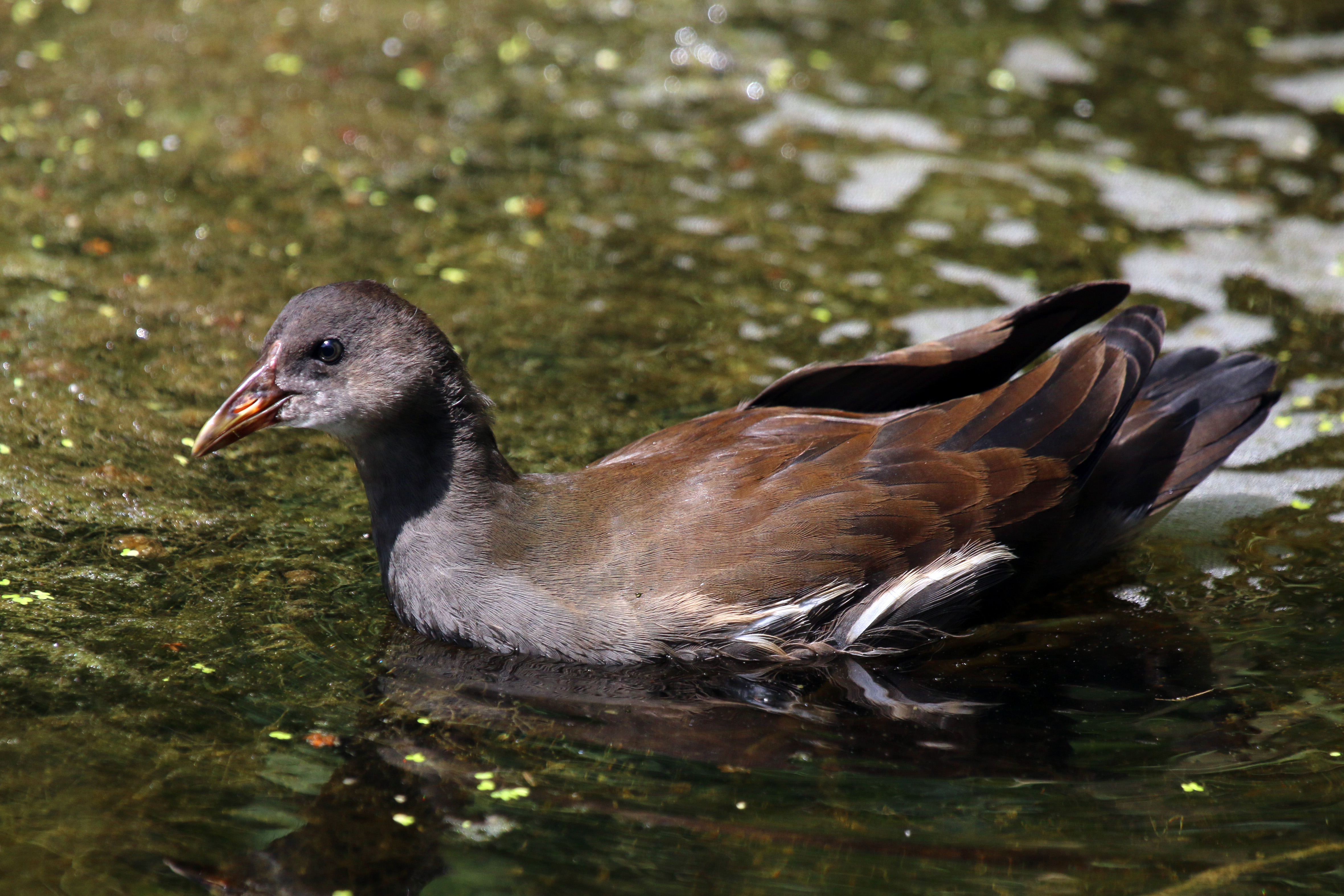 Common Moorhen (Gallinula chloropus) juvenile, Wolvercote, Oxfordshire